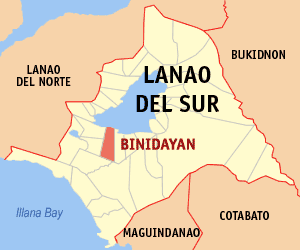 Map of the Lanao del Sur showing the location of Binidayan